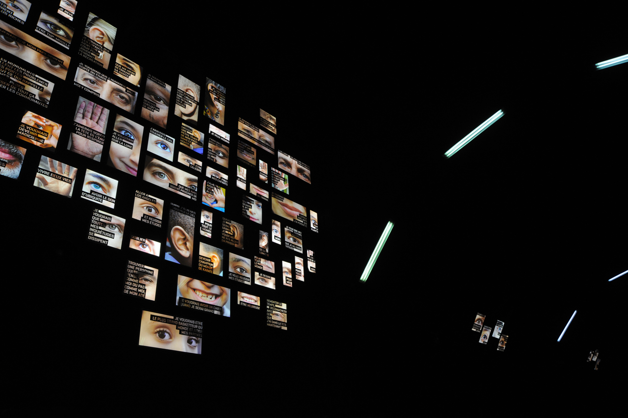 Ex-voto / installation of Maryvonne Arnaud and Philippe Mouillon / tunnel National Marseille / 2013